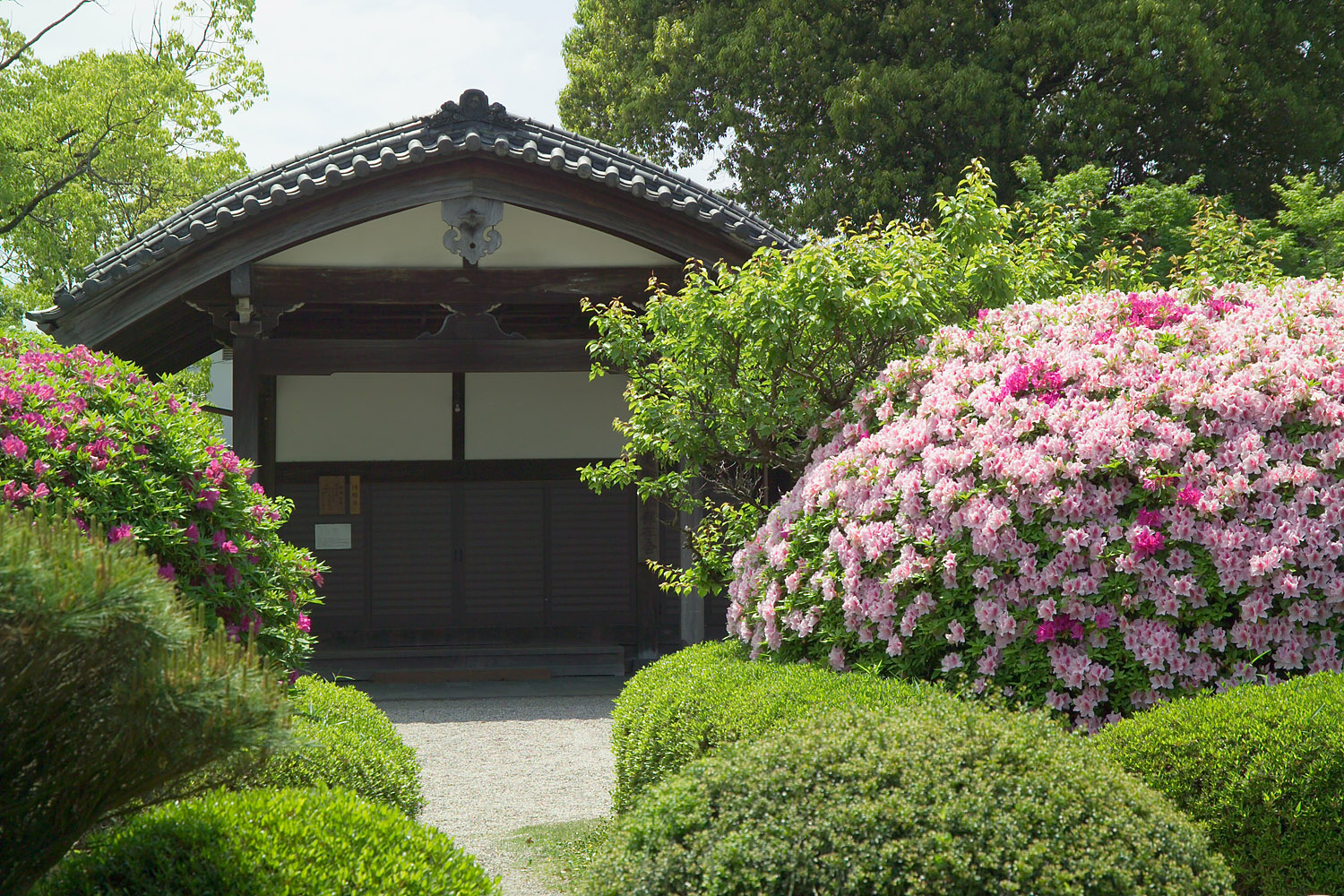 The building is the Yanagisawa Bunko (Library) at Kōriyama Castle in the city of Yamatokōriyama, Nara Prefecture, Japan